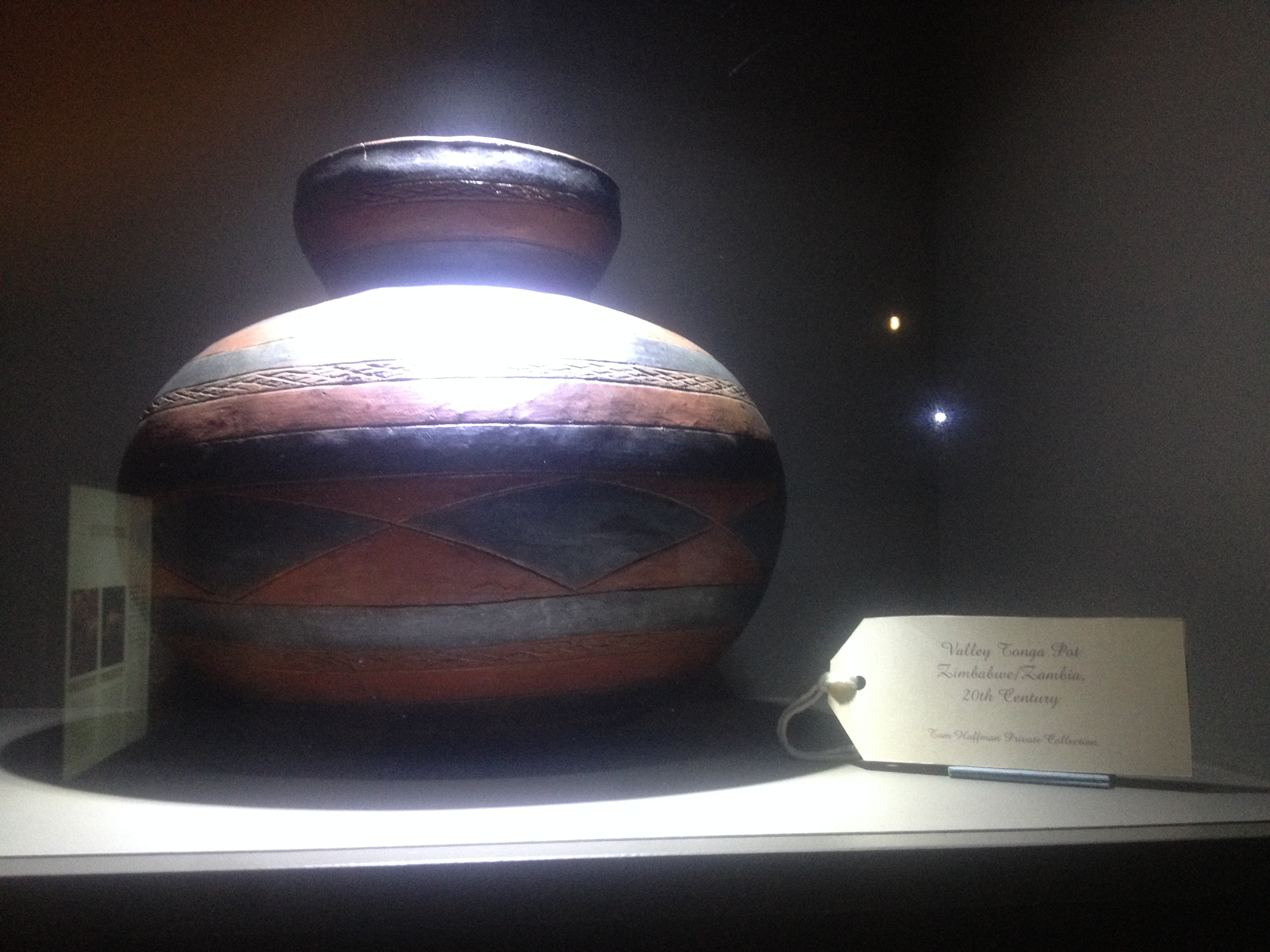 Valley Tonga Pot from Zimbabwe/Zambia at the origins Center